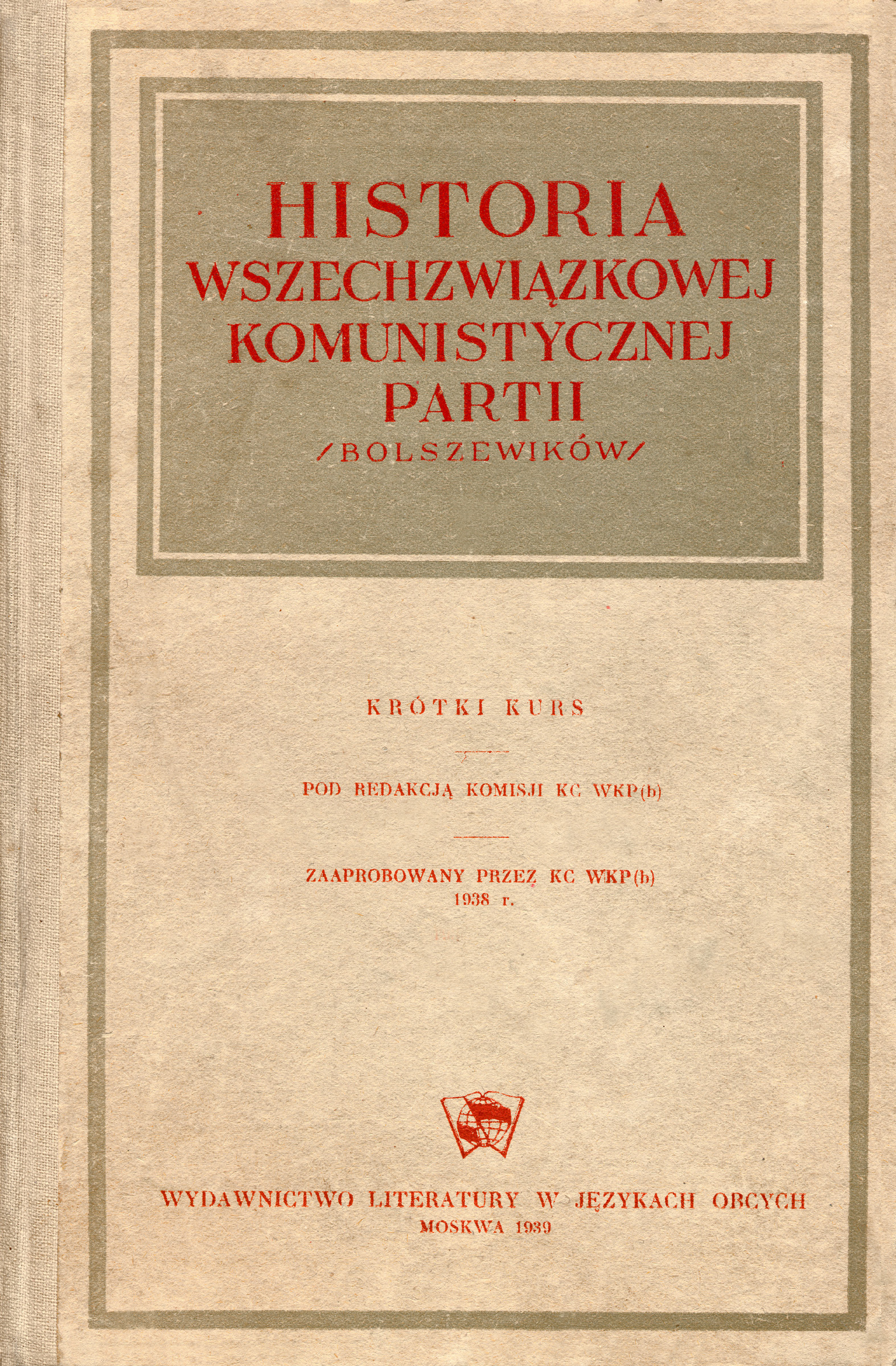 History of the Soviet Communist Party - Polish edition